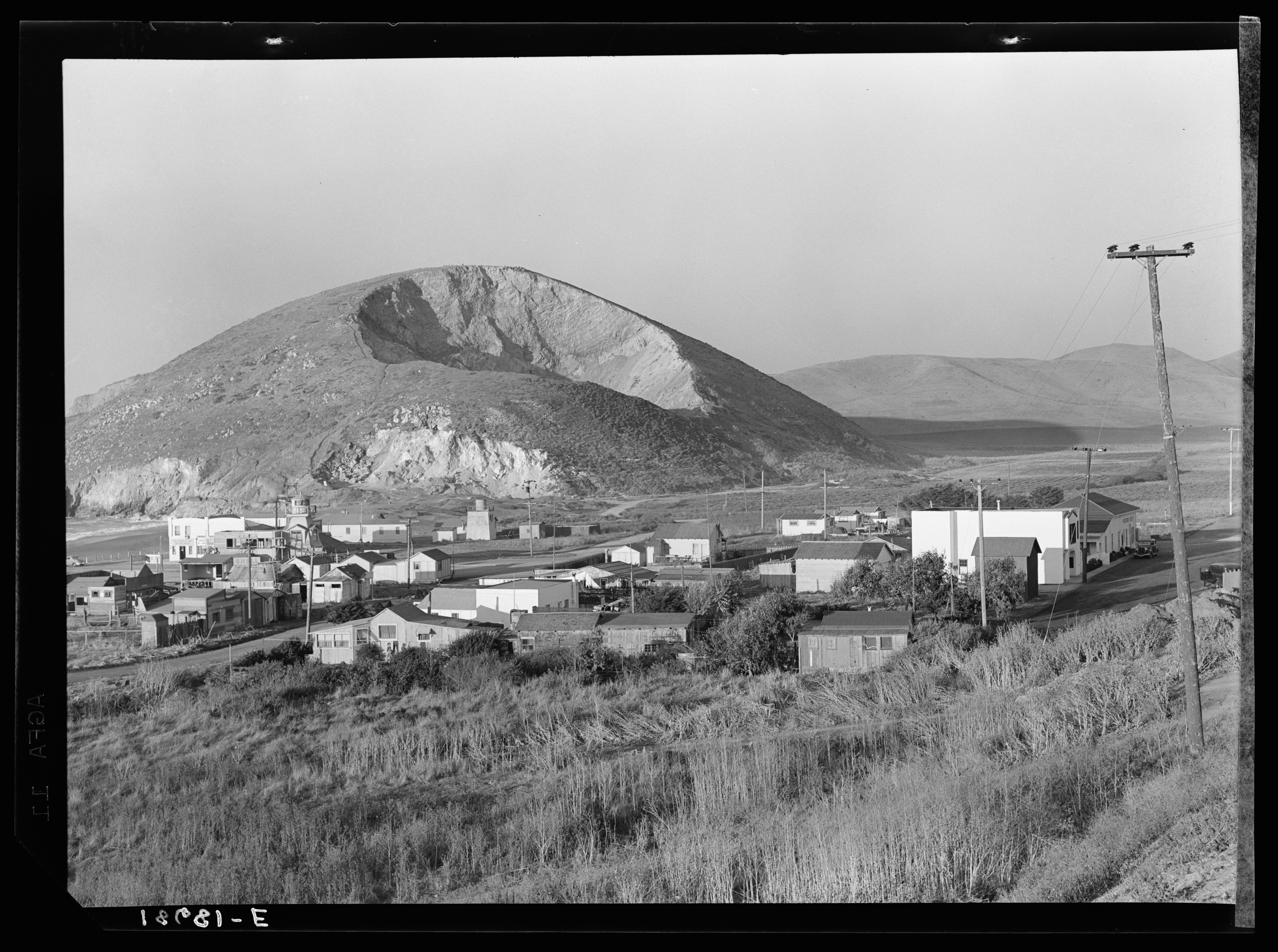 Photograph by Dorothea Lange for the Farm Services Administration. Call number LC-USF34-018681-E [P&P]